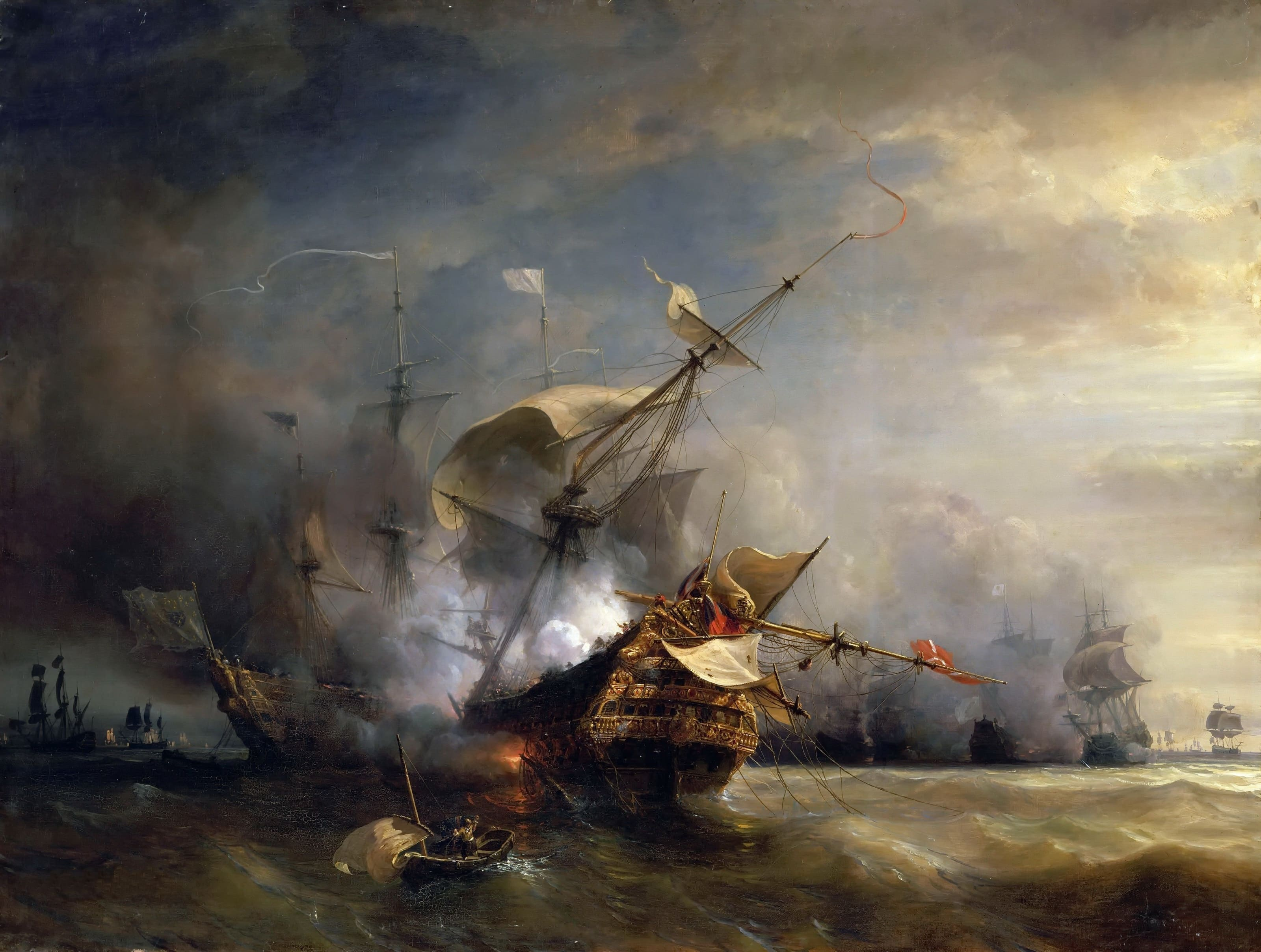 Battle of Cape Lizard (1707).